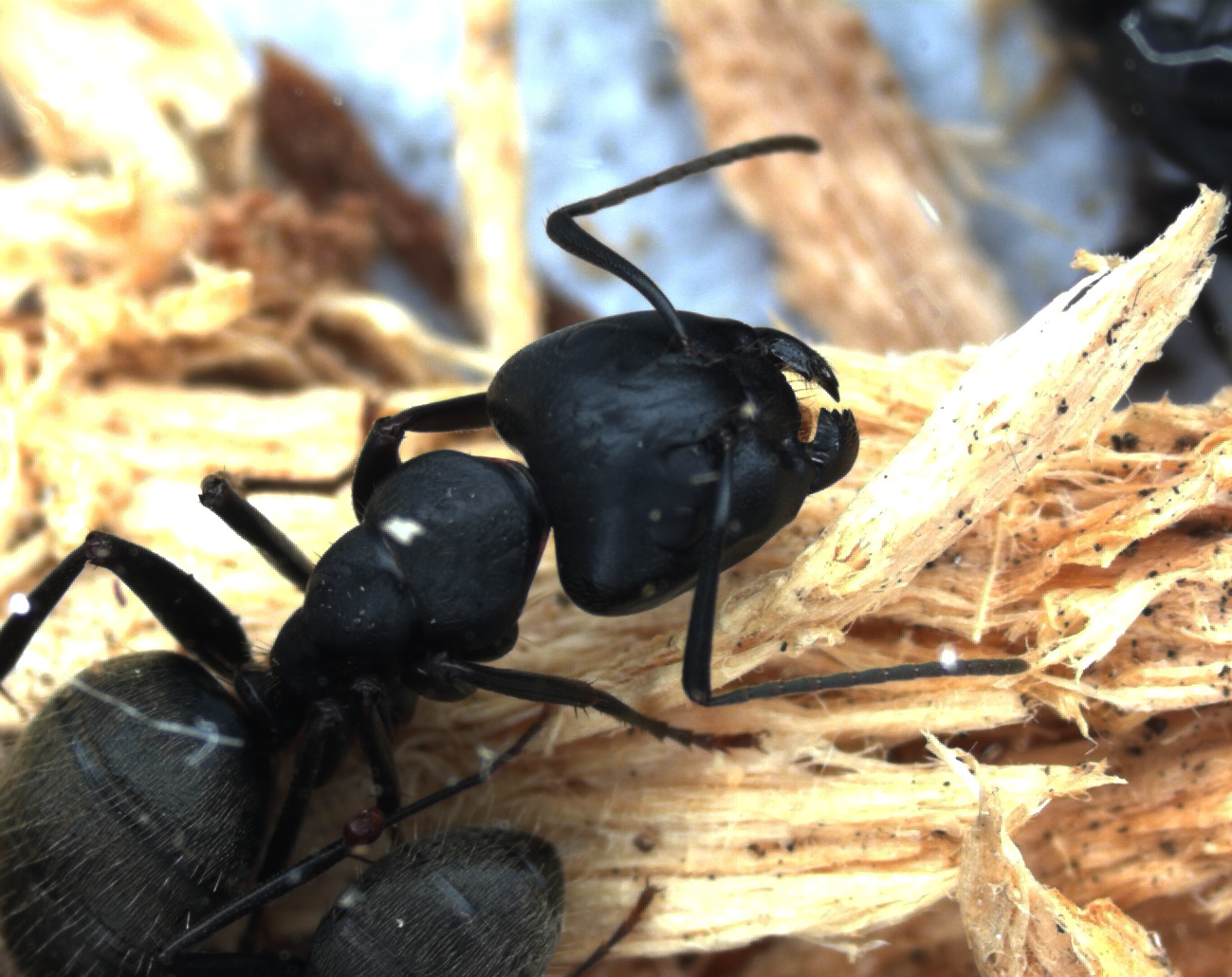 A carpenter ant, Camponotus pennsylvanicus, Hosts the Mutualistic Bacterial Endosymbiont Blochmannia. Like all species of the ant genus Camponotus, the wood-nesting C. pennsylvanicus (shown here) possesses an obligate bacterial endosymbiont called Blochmannia. The small genome of Blochmannia retains genes to biosynthesize essential amino acids and other nutrients (Gil et al. 2003), suggesting the bacterium plays a role in ant nutrition. Many Camponotus species are also infected with Wolbachia, an endosymbiont that is widespread across insect groups.